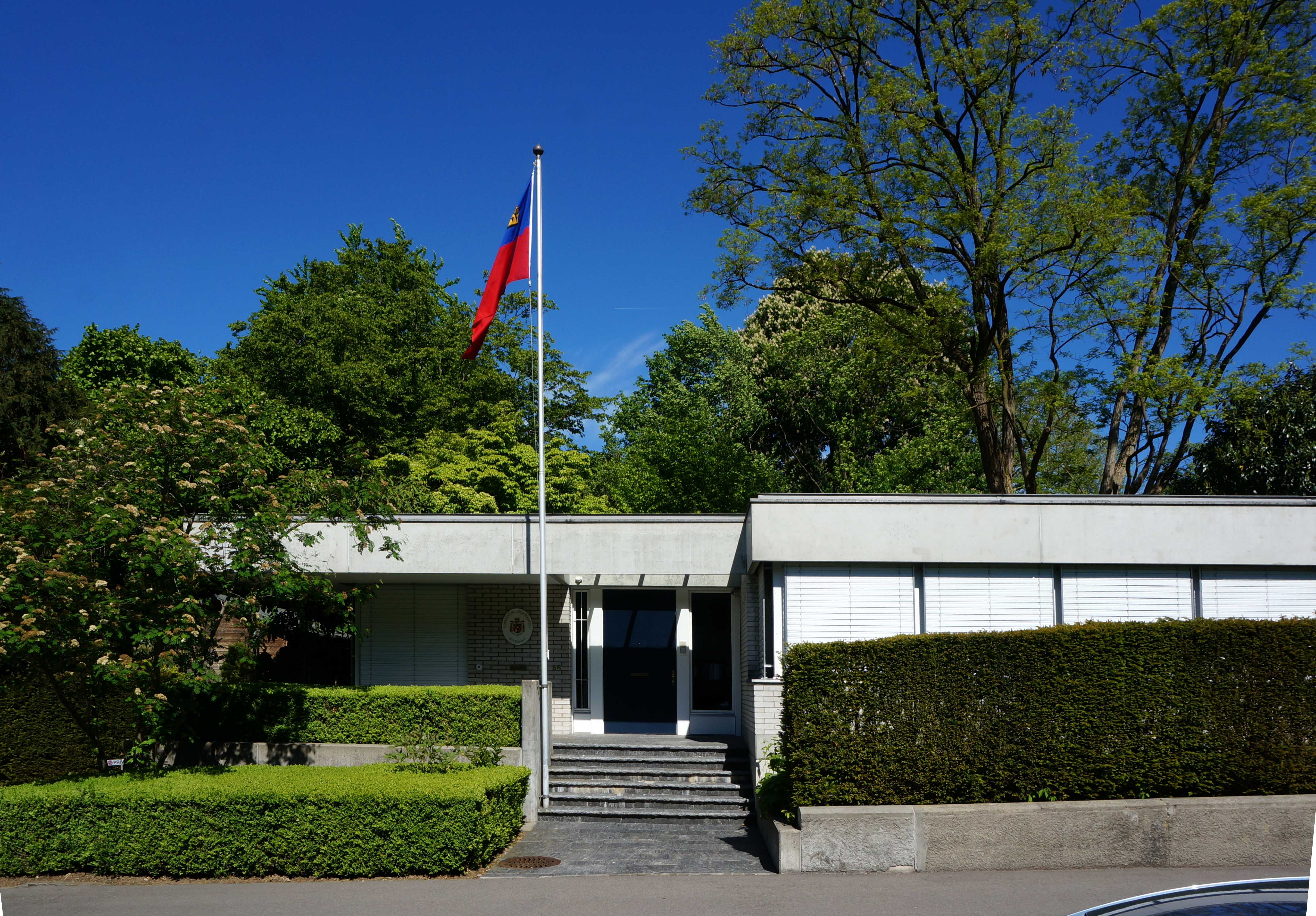 Bern, Willadingweg 65. Embassy of Liechtenstein in Bern.